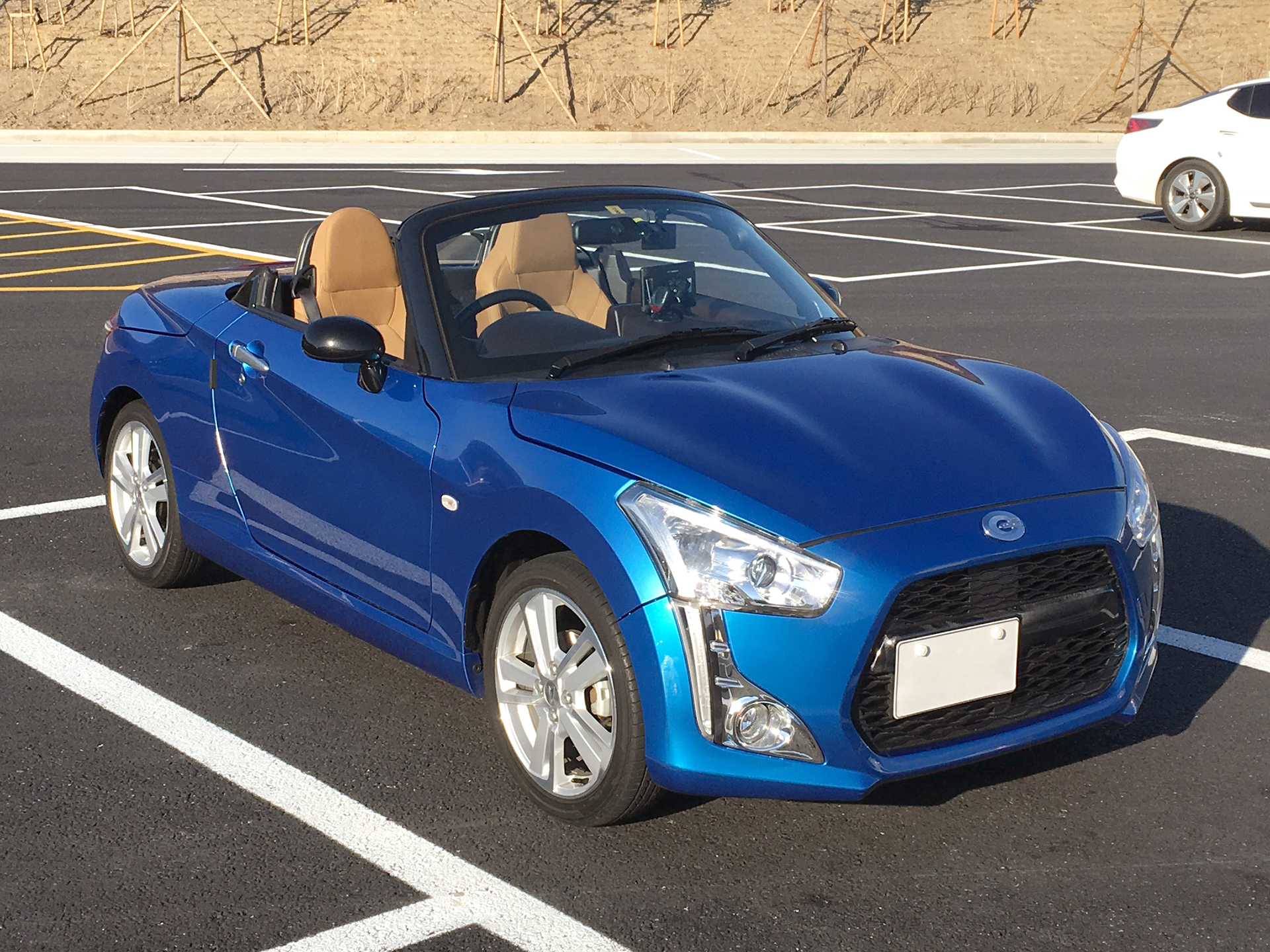 Daihatsu Copen(Robe / 2nd Generation), Front-side view